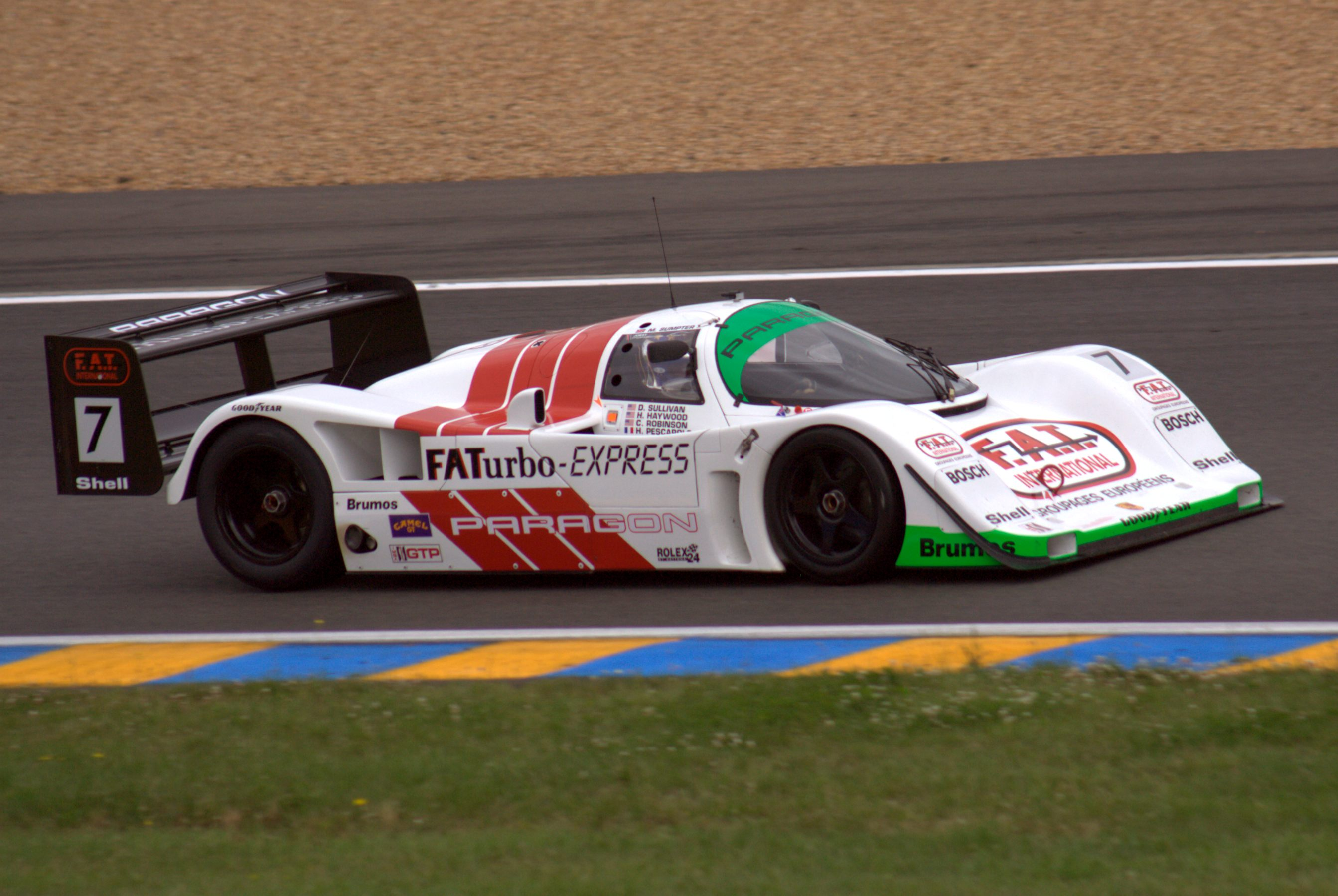 Porsche 962 C, LM Story, Le Mans. 7th June 2007